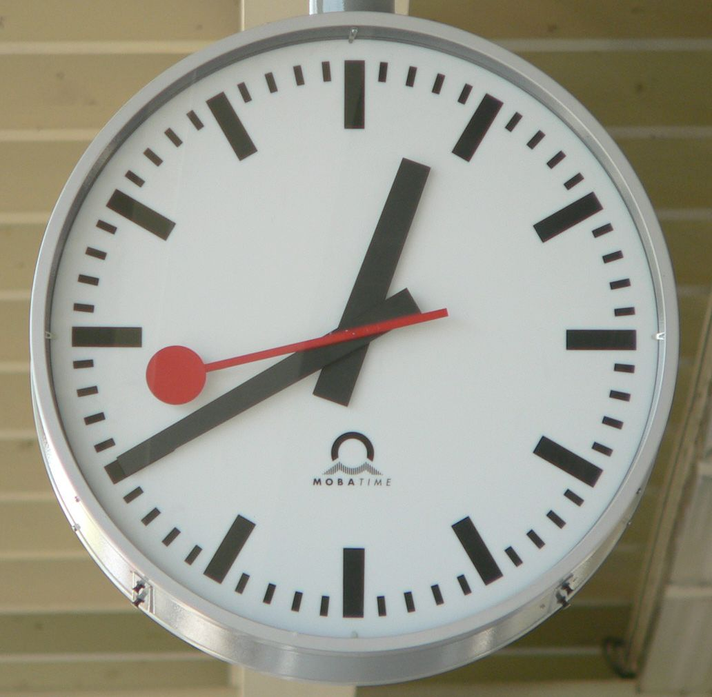 Clock in the main station in Zürich, Switzerland